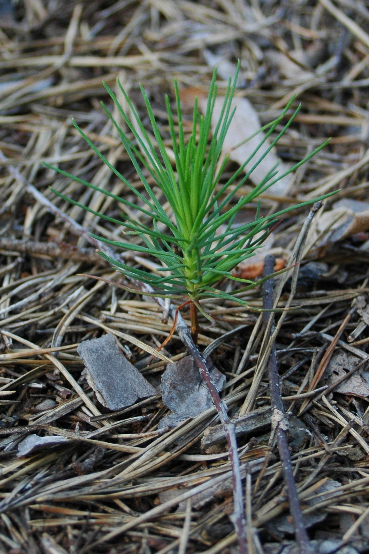 Pinus sylvestris - seedling, Czech Republic